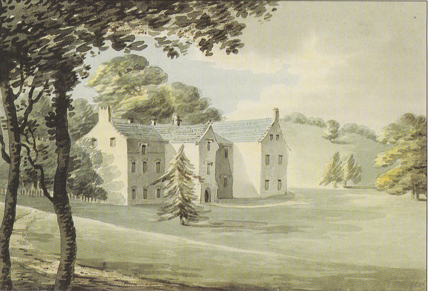 "Old Nutwell, seat of late Sir Francis Drake". (Nutwell Court, Woodbury, Devon). Undated watercolour by the Devon topographer Rev. John Swete (d.1821) made before 1799 when the present neo-classical house was built in its place. Devon Record Office 564M/F16/72